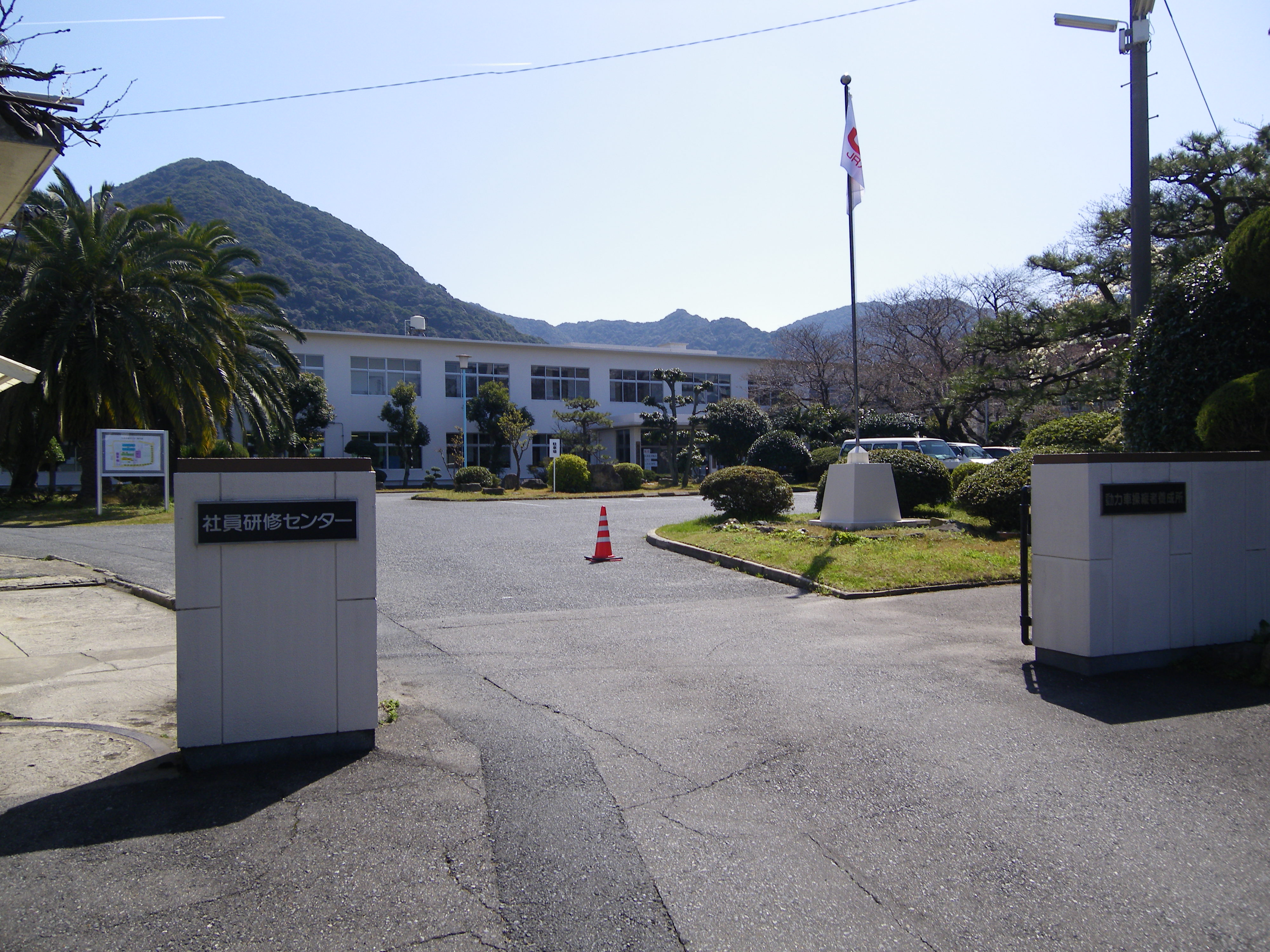 JR Kyushu Training Institute